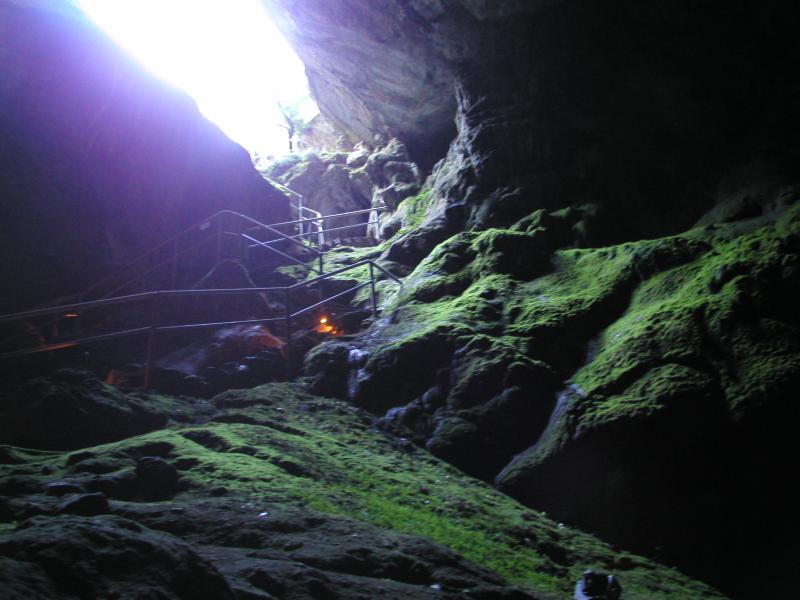 Zeus Cavern is a fantastic system of caves located in Kusadasi, Turkey